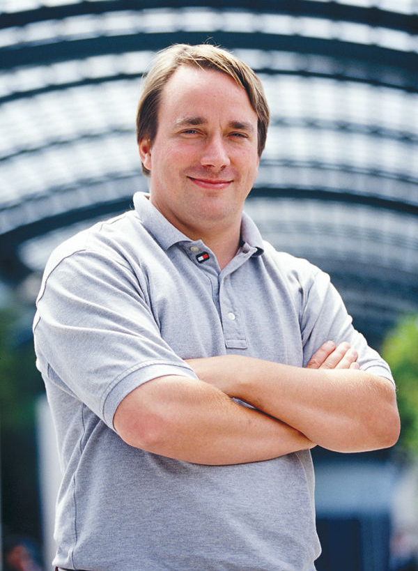 Linus Torvalds, creator of the Linux kernel.